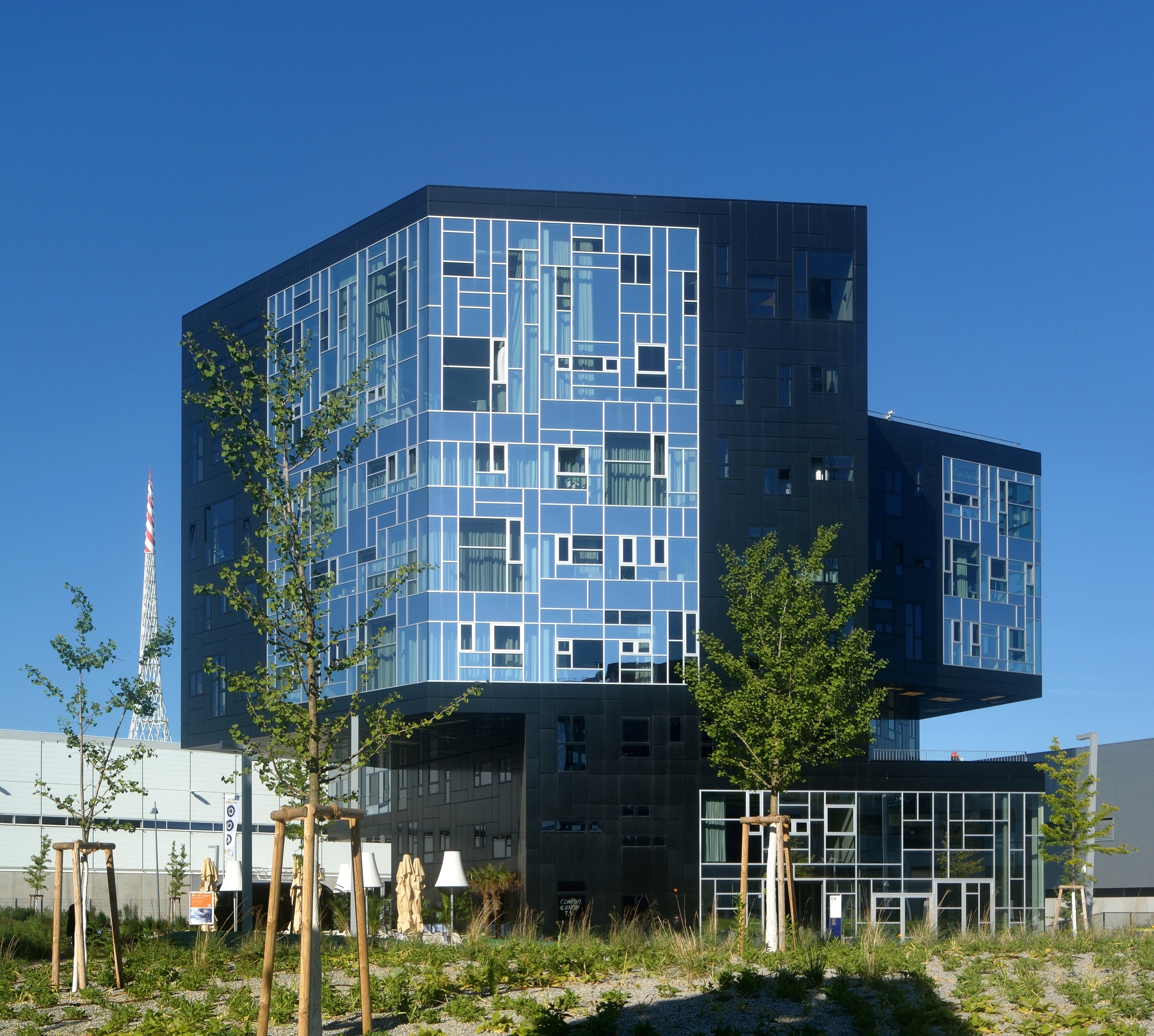 Campus of the Vienna University of Economics and Business, building EA (Executive Academy), planned by NO.MAD Arquitectos (Madrid), Welthandelsplatz 1, 2nd district of Vienna